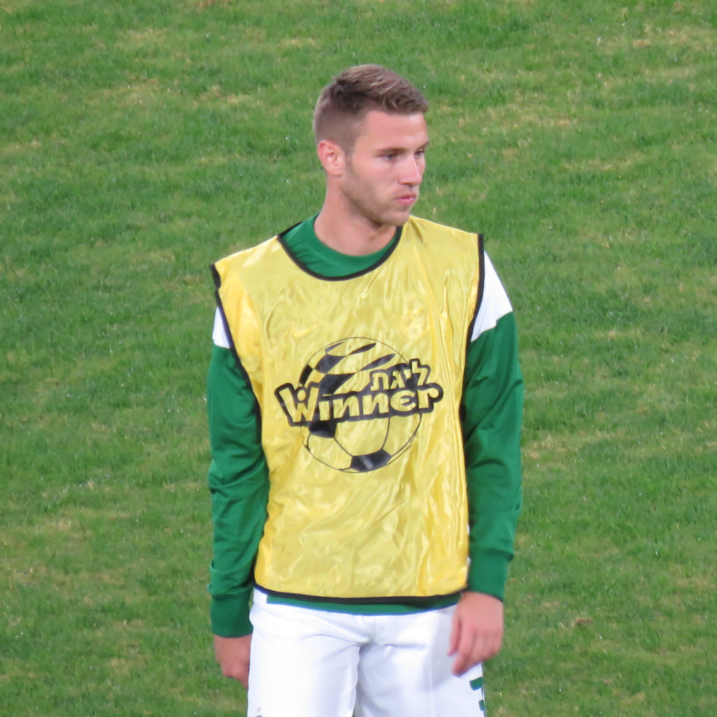 December 2016